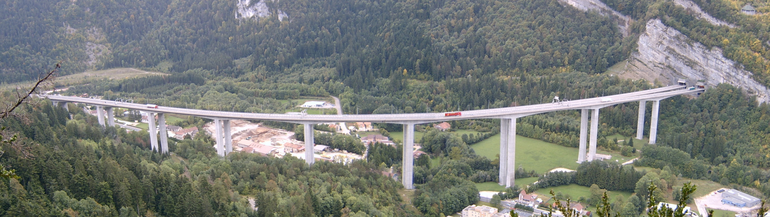 Personally made photo of the viaduc de Nantua which is part of the French motorway A40.